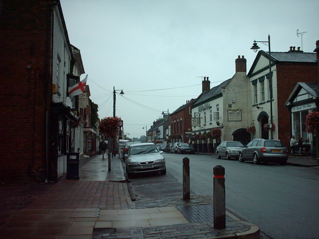 Eccleshall, Staffordshire. Taken by Rob Neild. 2004